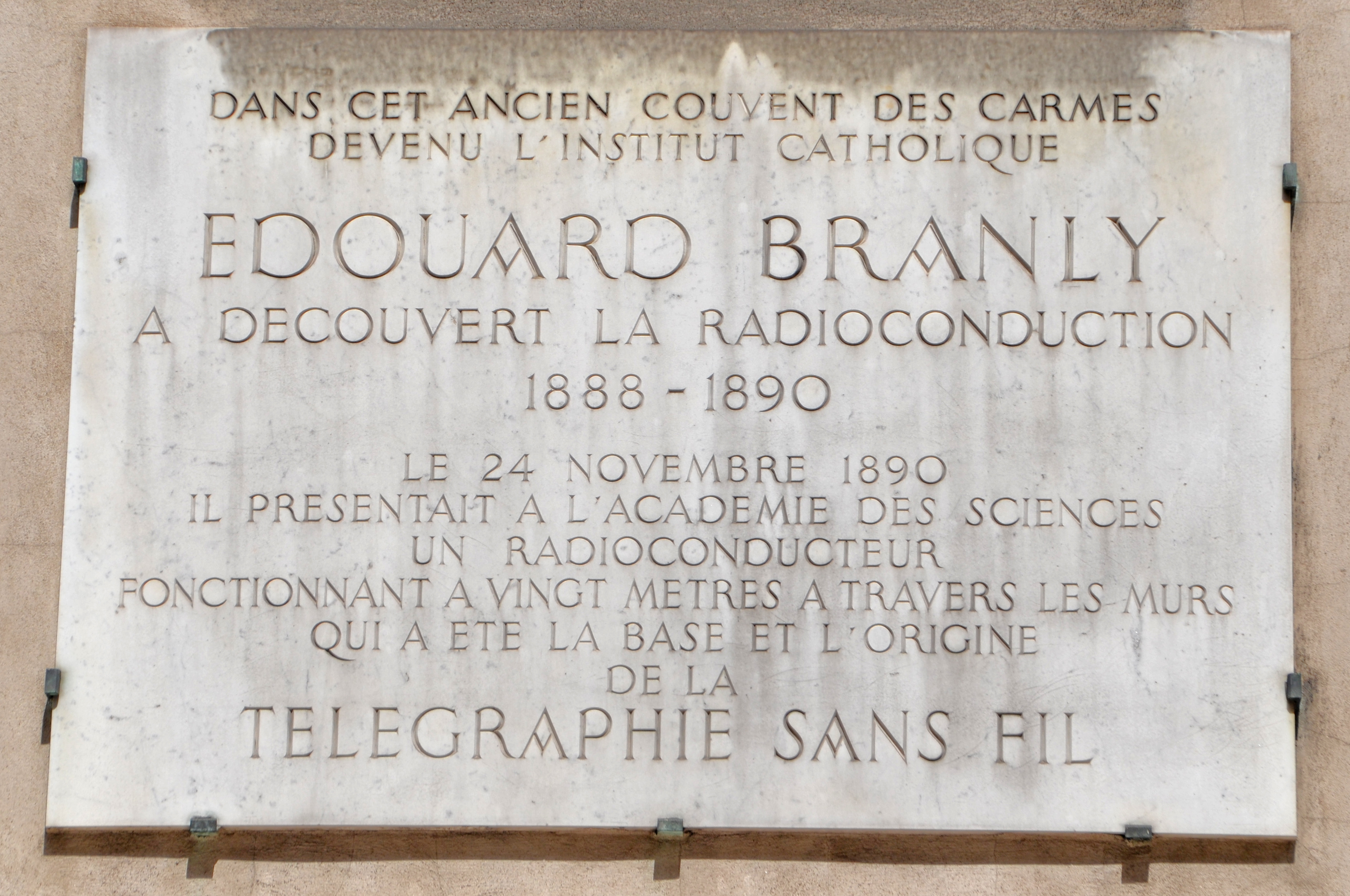 Read about this pioneer of wireless telegraphy here